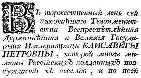 XVIII century Russian cursive font, note unusual "square" minuscule V